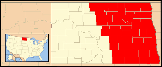 Map of Catholic diocese of Fargo in USA.